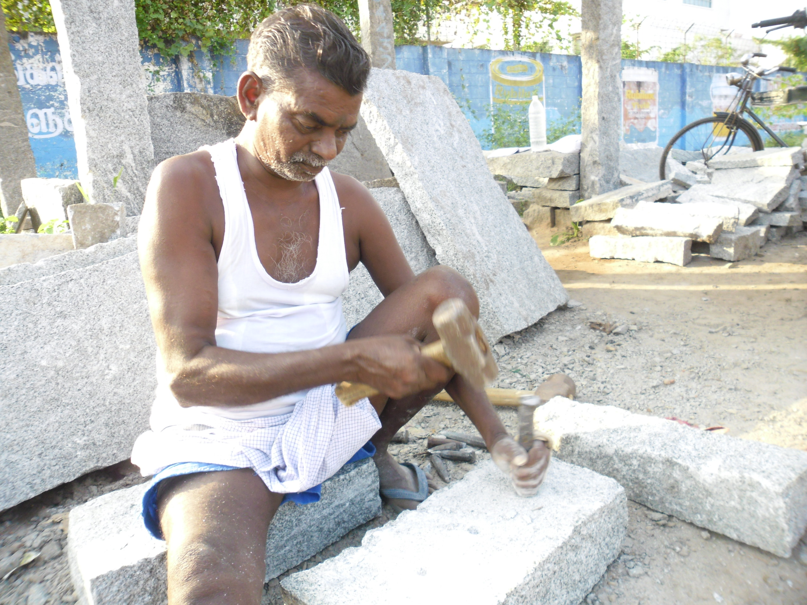 A man breaking stones with hammer and chisel